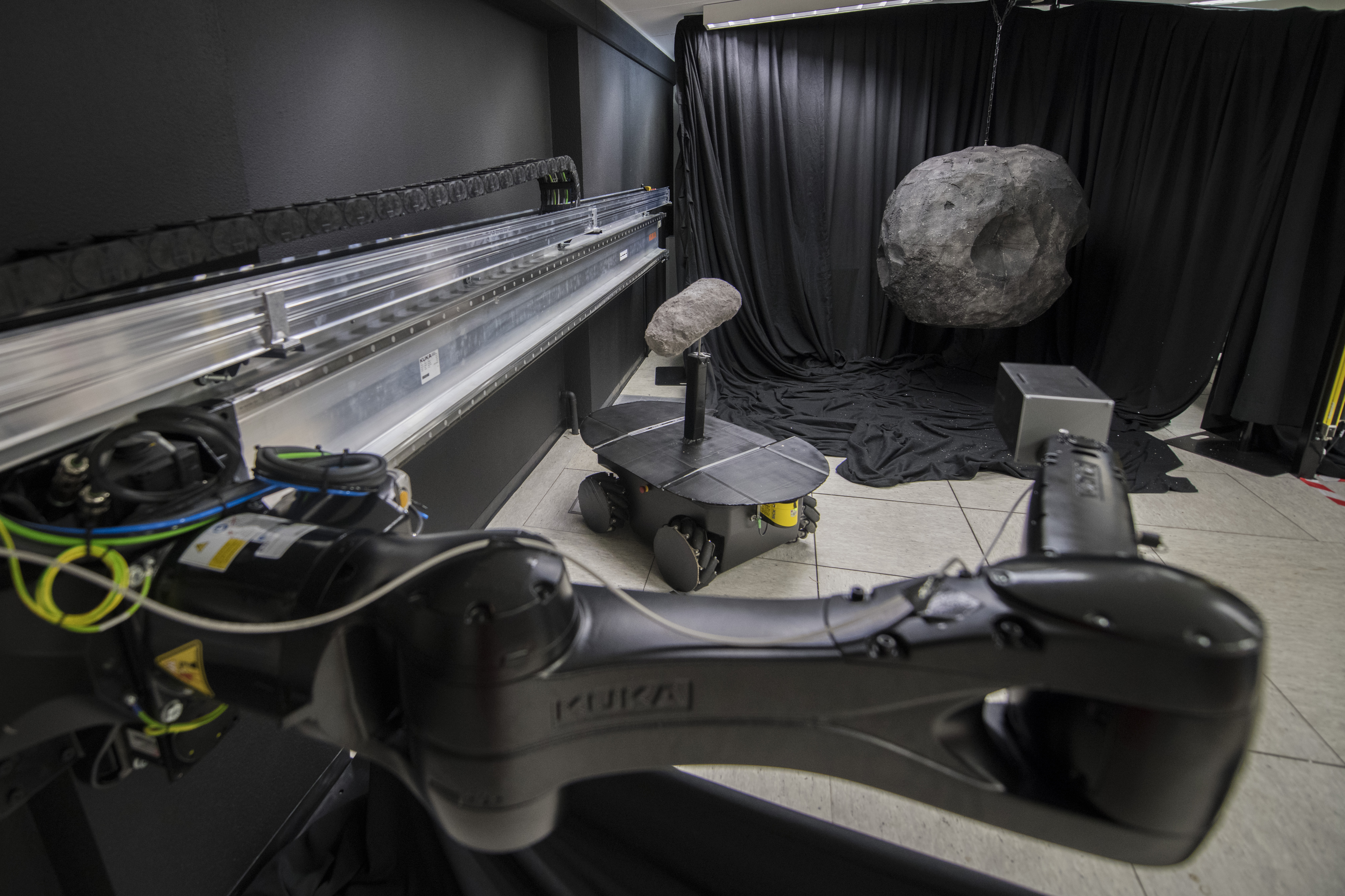 The smaller model asteroid seen here atop a rover that slowly wheels around another larger model asteroid, a practical recreation of the kind of binary asteroid system to be visited by ESA’s proposed Hera mission. The camera seen to the right, mounted on a 33 m track, approaches this miniature binary asteroid system to test vision-based navigation software. Employing 3D printed asteroid models, this test took place in ESA's GNC Rendezvous, Approach and Landing Simulator, or GRALS. “ESA’sHera mission, currently under study, would be humankind’s first mission to a binary asteroid system, targeting the Didymos pair of Near-Earth asteroids,” explains Paolo Martino, Hera system engineer. “The plan is to map surface features of these bodies on an automated basis to pinpoint Hera’s position in space and chart its onward trajectory. And GRALS is letting us test candidate navigation algorithms in a real-world way.” Part of the Agency's Orbital Robotics and Guidance, Navigation and Control Laboratory in its ESTEC technical centre in the Netherlands,GRALS is used to simulate close approach to uncooperative targets such as asteroids or drifting satellites.